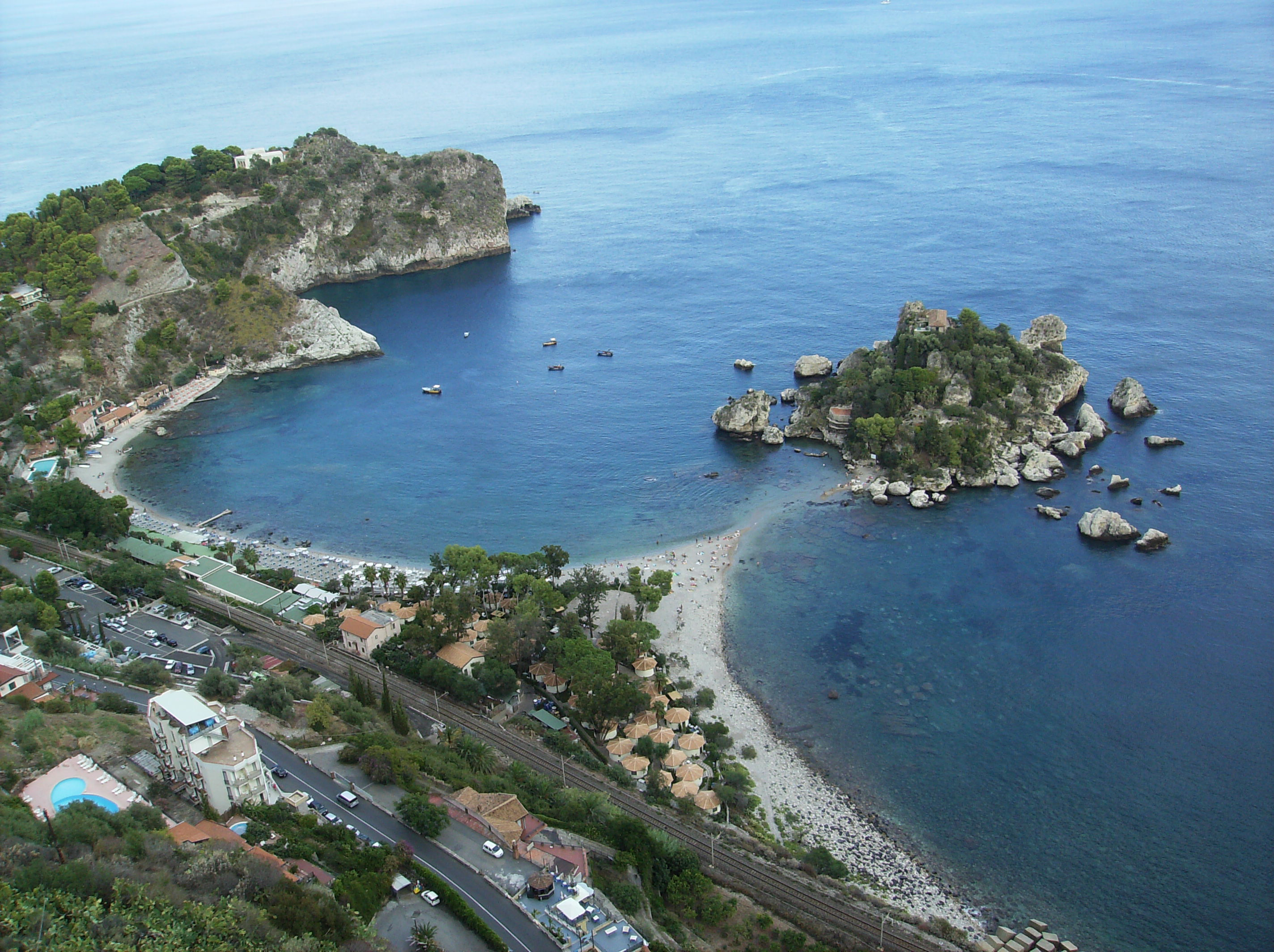 Isola Bella Taormina view from Taormina